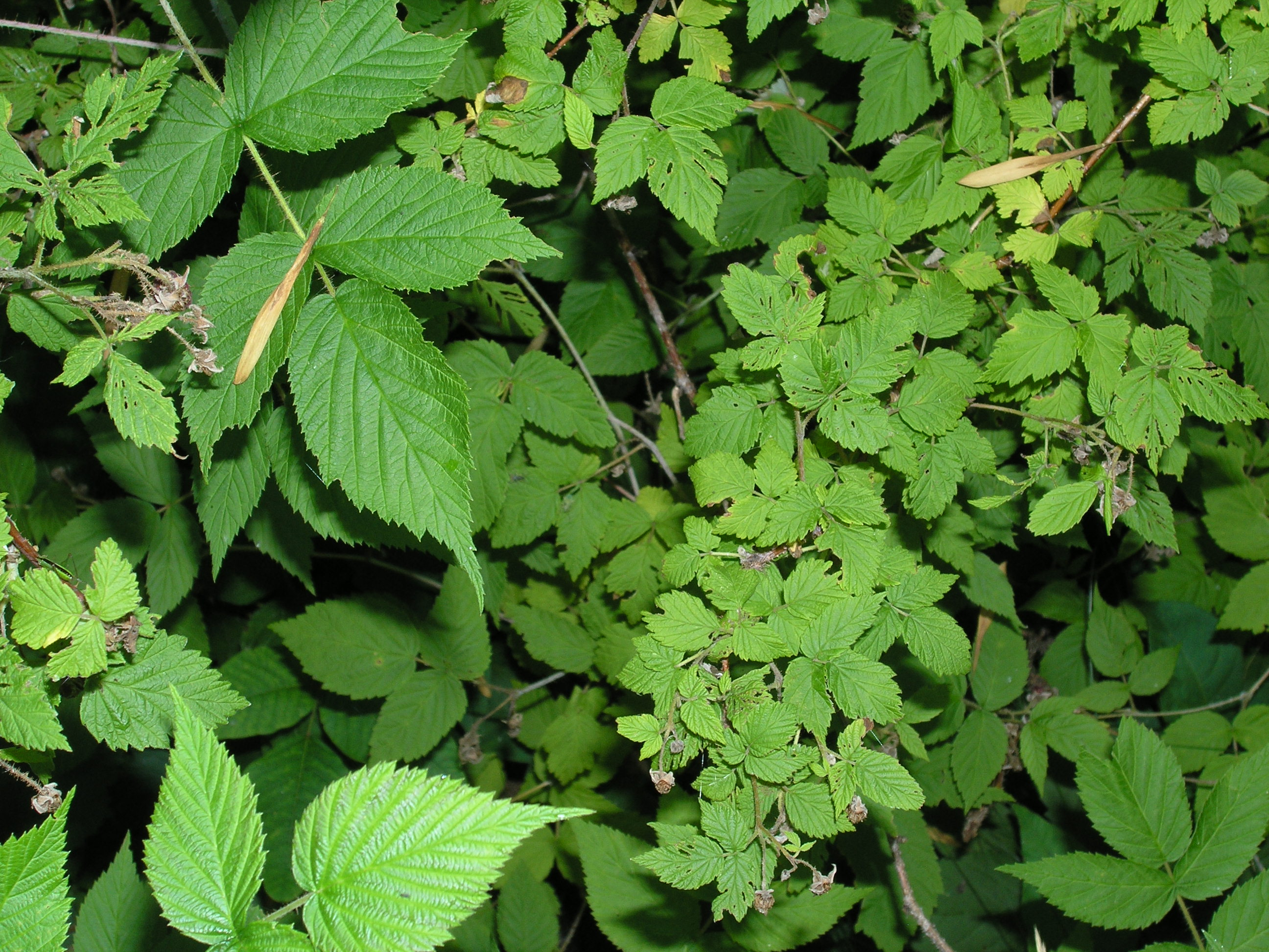 A picture I took of wild raspberry plants. Notice that two adjacent canes can have different size leaves. Some leaves on older canes are not much bigger than the berries! Also note the plant on the left has 5 leaflets and the one on the right has 3. Date: July 19, 2006. Location: Northeastern United States (upstate NY).